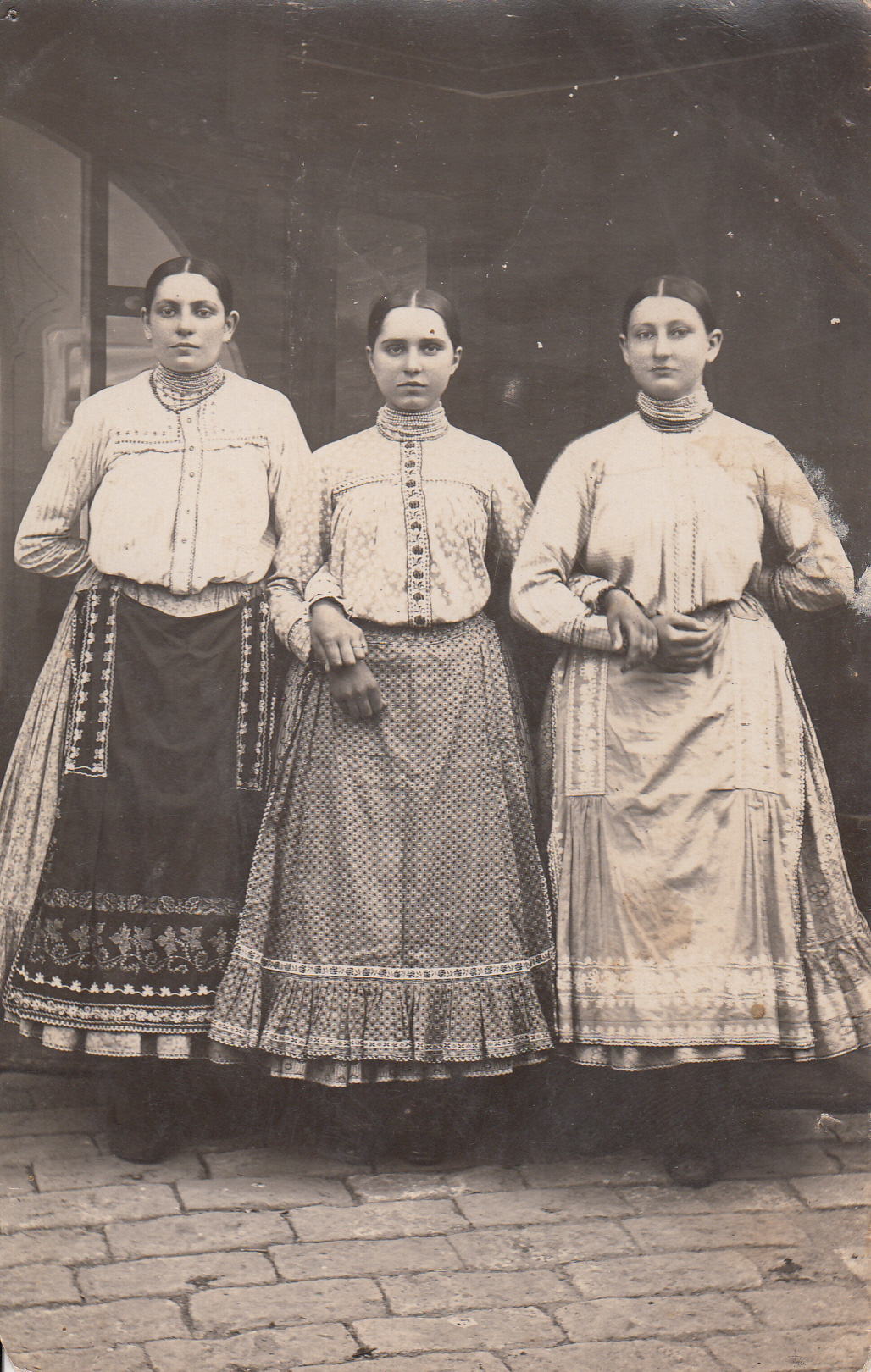 Vojvodinian Slovak girls in everyday costume in which they went to the dance. Pivnice (Bačka Palanka, Vojvodina, Serbia) (1930). Srpski (latinica): Slovačke devojke u svakodnevnoj nošnji u kojoj se išlo na igranku. Pivnice (1930).